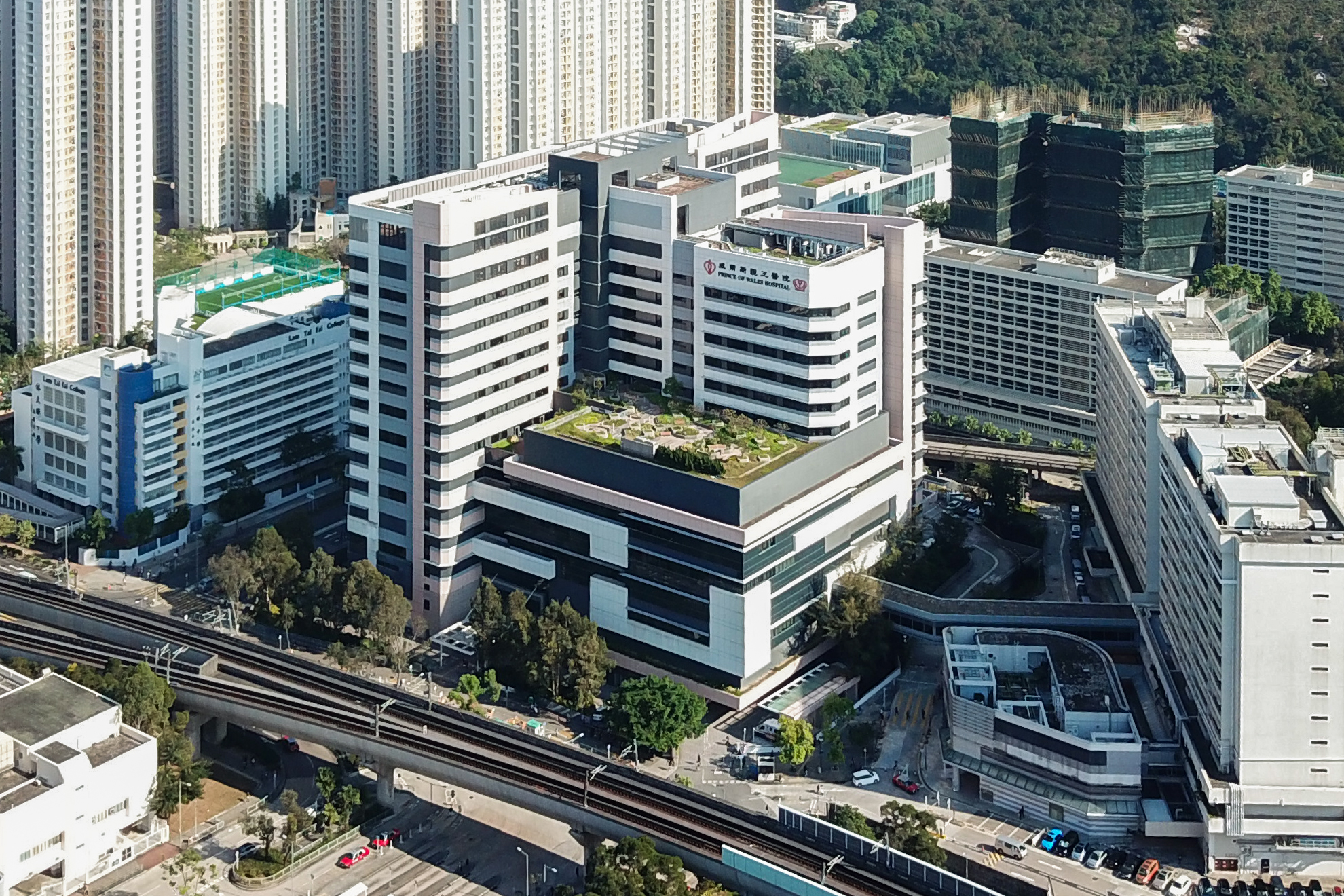 Prince of Wales Hospital Main Clicnic Block